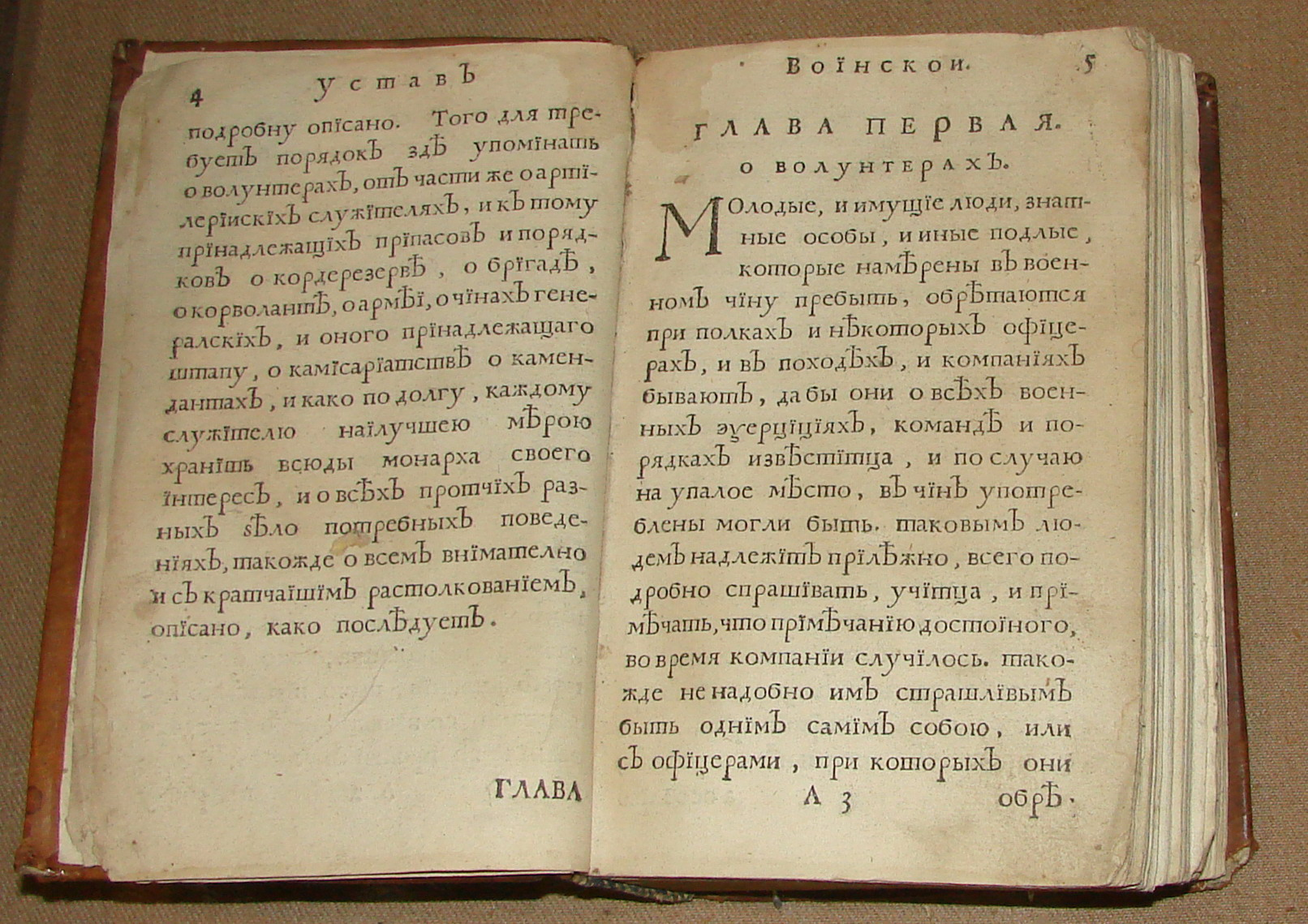 Russian military regulations 1716 year, Russian War statute of 1716